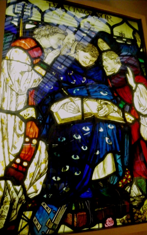 "Rumour"- Stained Glass Window designed by Henry Payne.